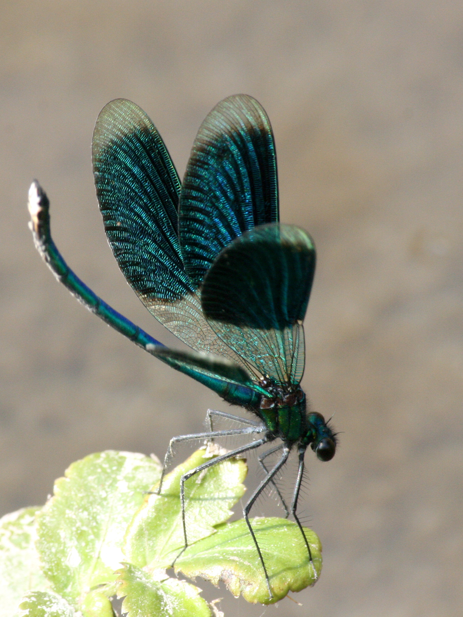 Male Banded Demoiselle (Calopteryx splendens) in Germany